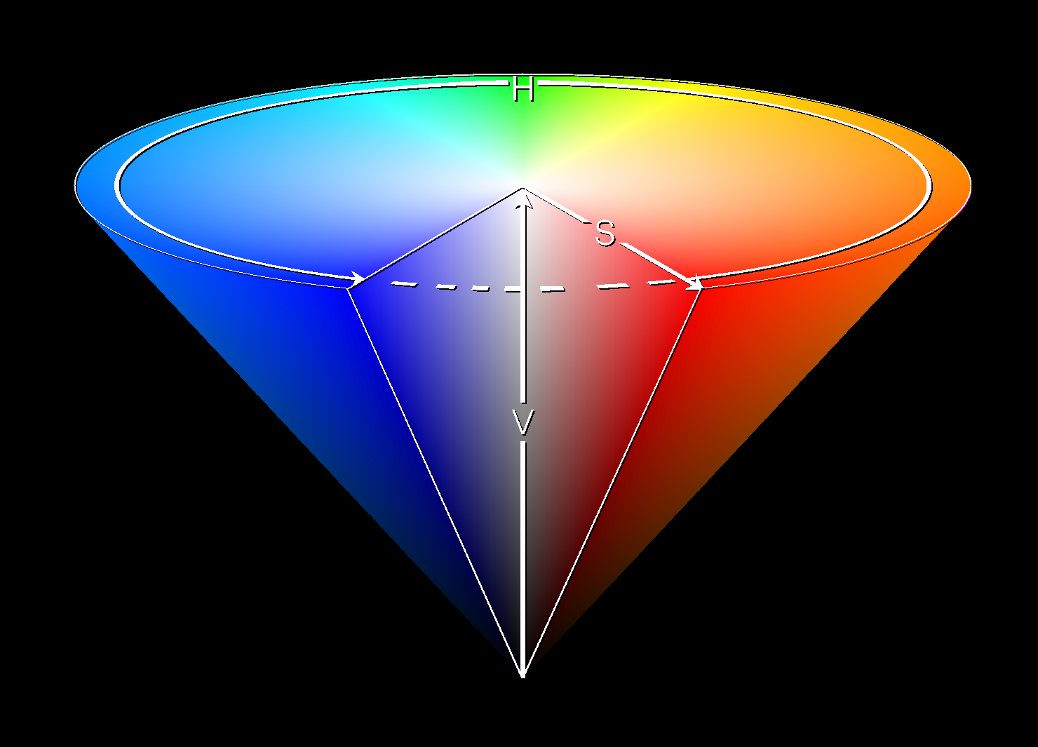 Representation of colors in the HSV system